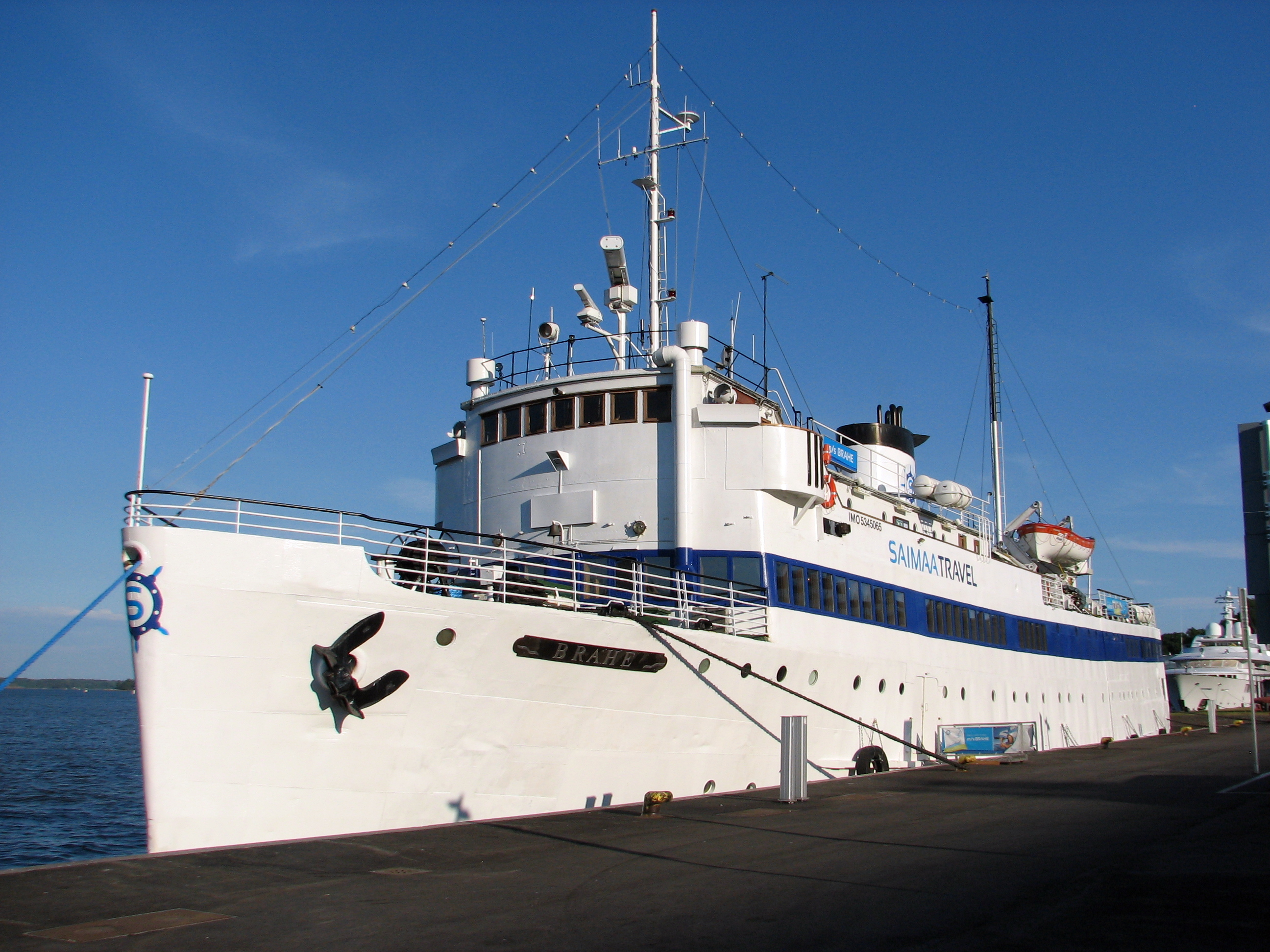 M/S Brahe (IMO 5345065)